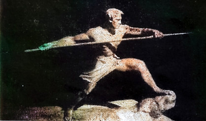 This is the second trophy named "Challenge Louis Rivet" (1946-1956), after Challenge Steeg, between 1920-1945, for competition who named "Championnat d'Afrique du Nord de football".